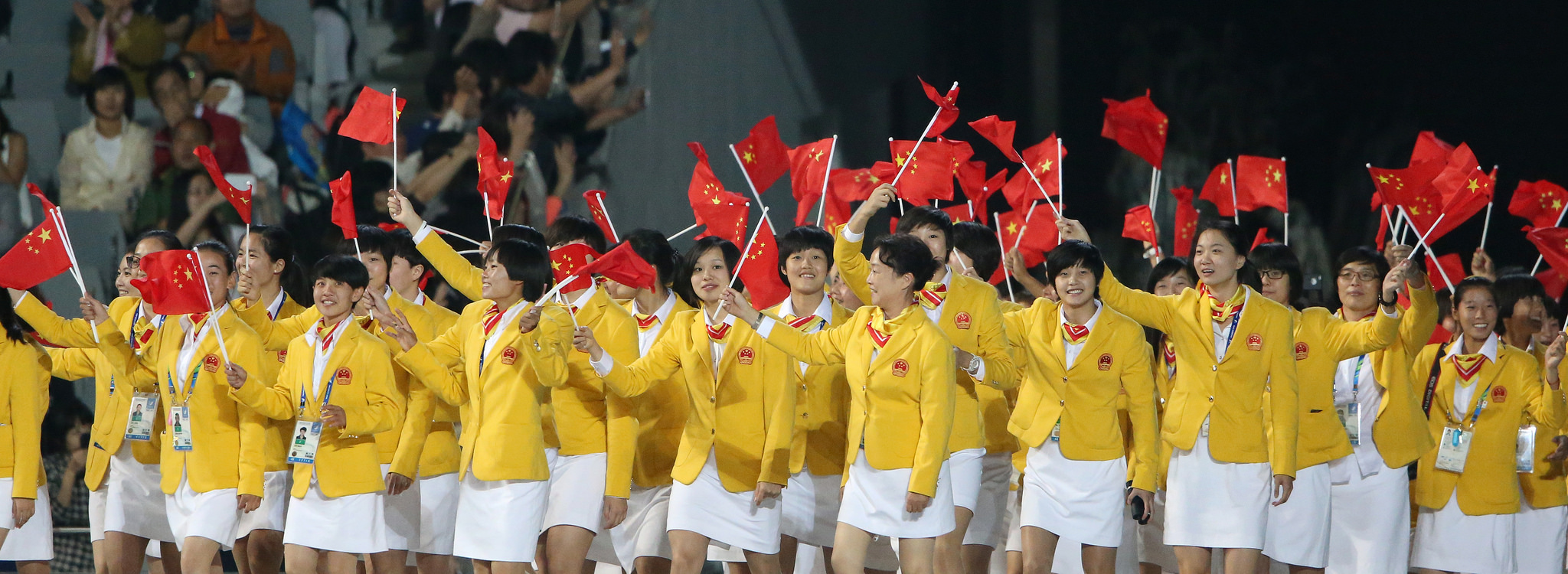 2014 Asian Games opening ceremony